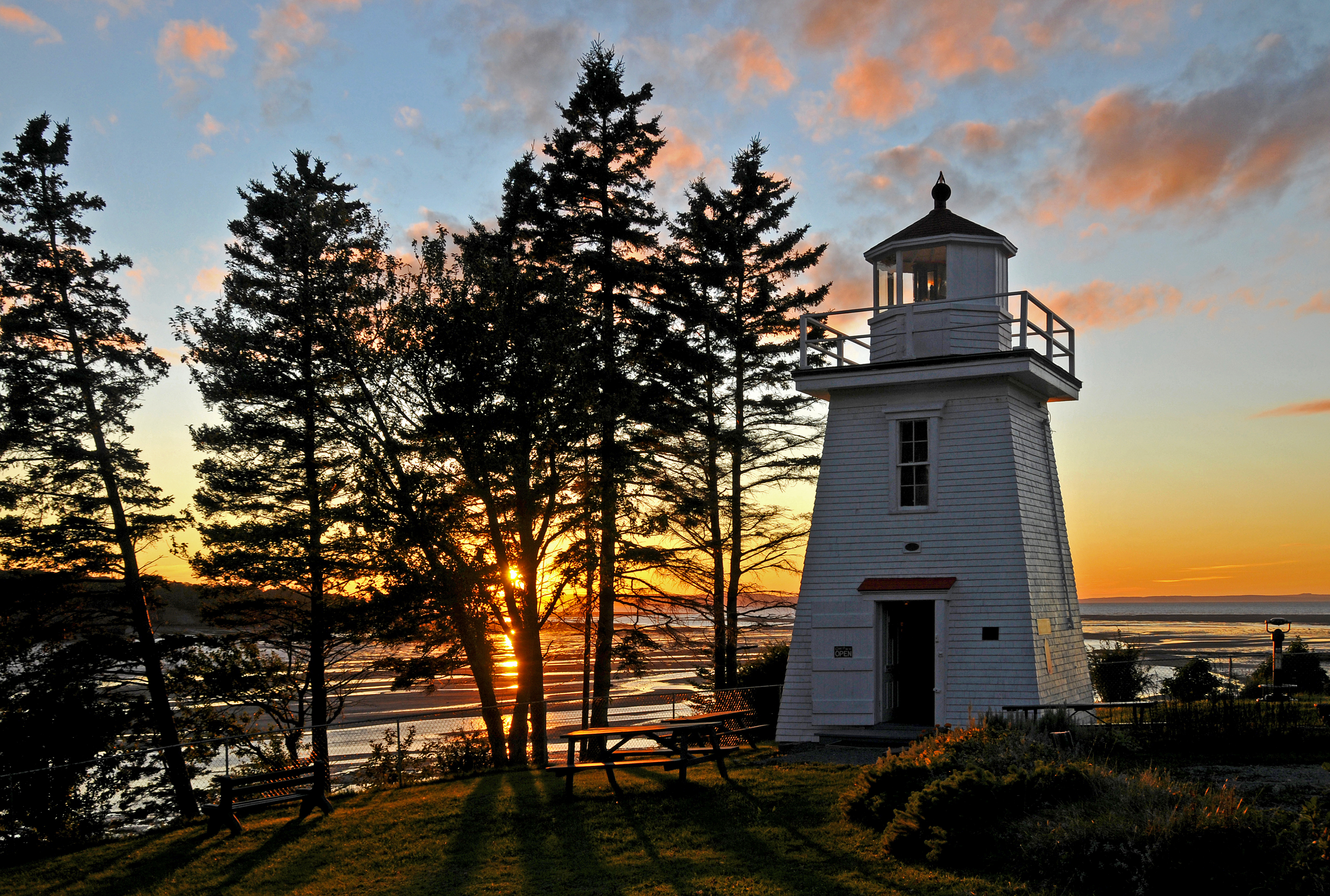 Walton Harbour Lighthouse.This lighthouse is 6.1m (20ft) high and 18.3m (60ft) above water level. Built in 1873, situated on a cliff at the mouth of the Walton River, the lighthouse guided ships into the Walton Dock on Pier Road. The lighting apparatus consisted of two flat-wick kerosene lamps with eighteen inch reflectors and two other lamps with twelve-inch reflectors, arranged to focus the light to the west. Three galvanized iron tanks were used to store the oil for the lamps. Abraham Pineo Gesner (May 2, 1797 - April 29, 1864) was a Canadian physician and geologist who invented kerosene. Gesner was born in Cornwallis, Nova Scotia. He died in Halifax, Nova Scotia. Walton Harbour Lighthouse was deactivated in 1986. The restored lighthouse and grounds have been developed into an interpretation centre.